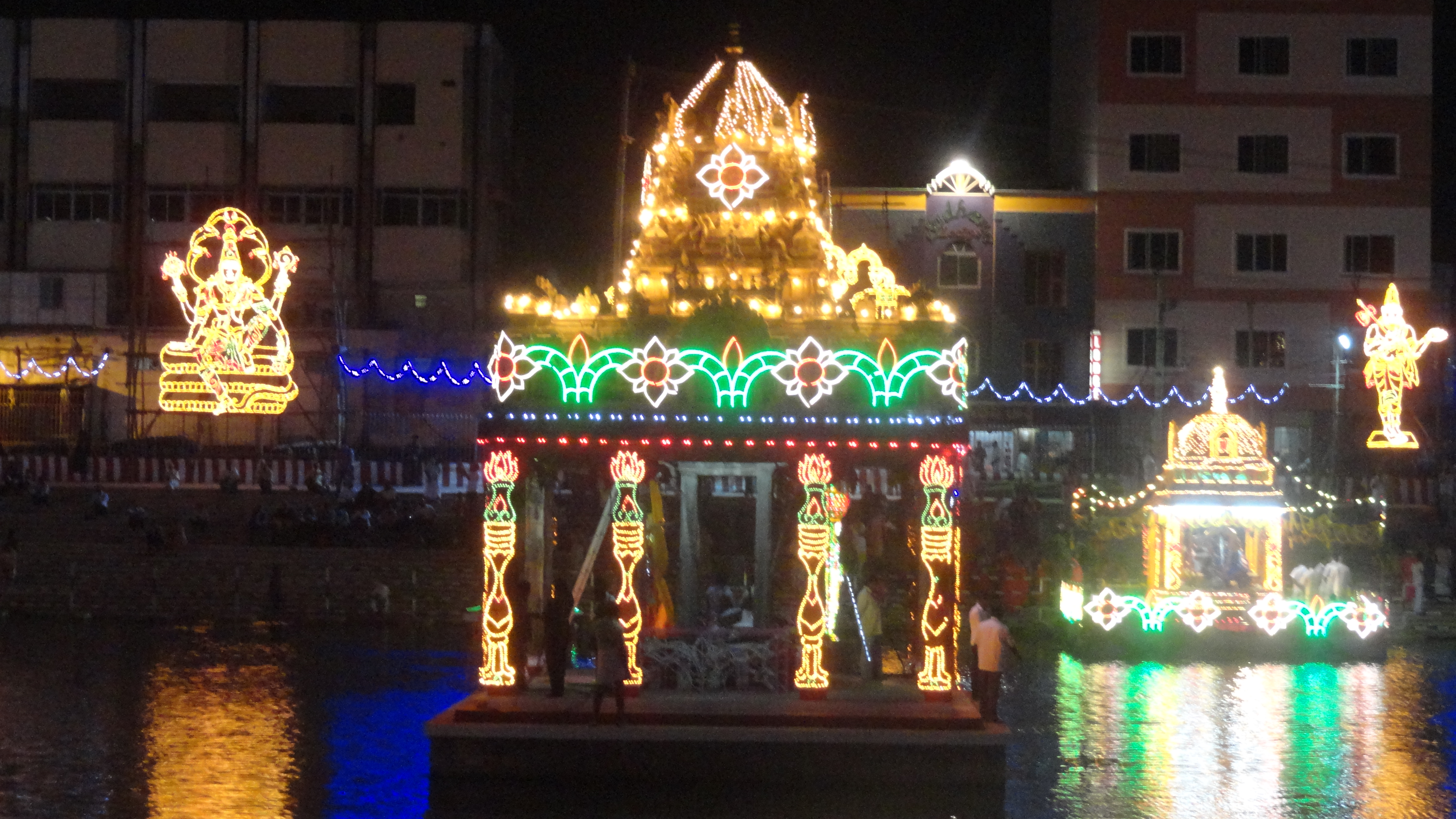 boat festival. tirupati